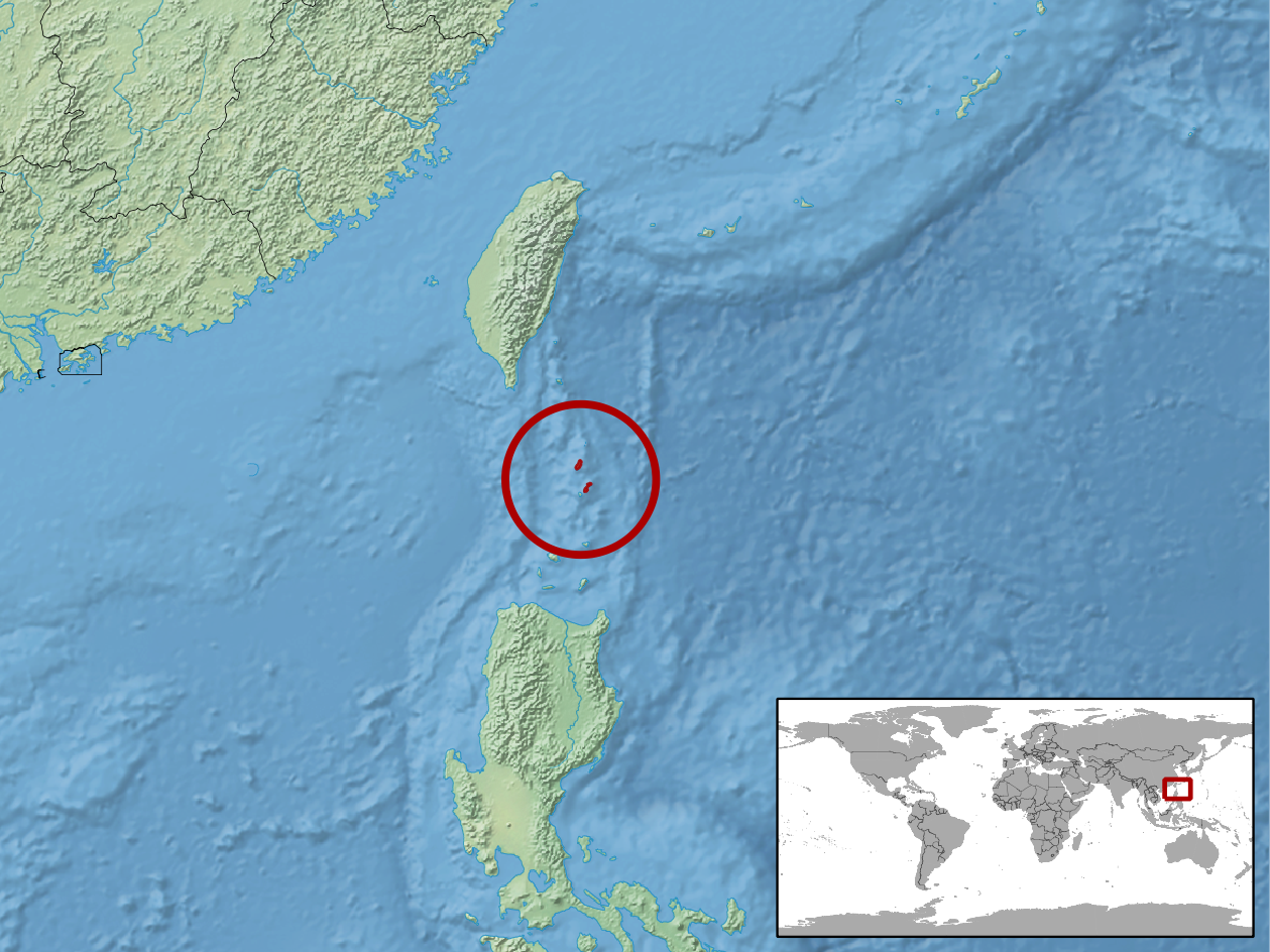 geographic distribution of Lepidodactylus balioburius (Native: Philippines)